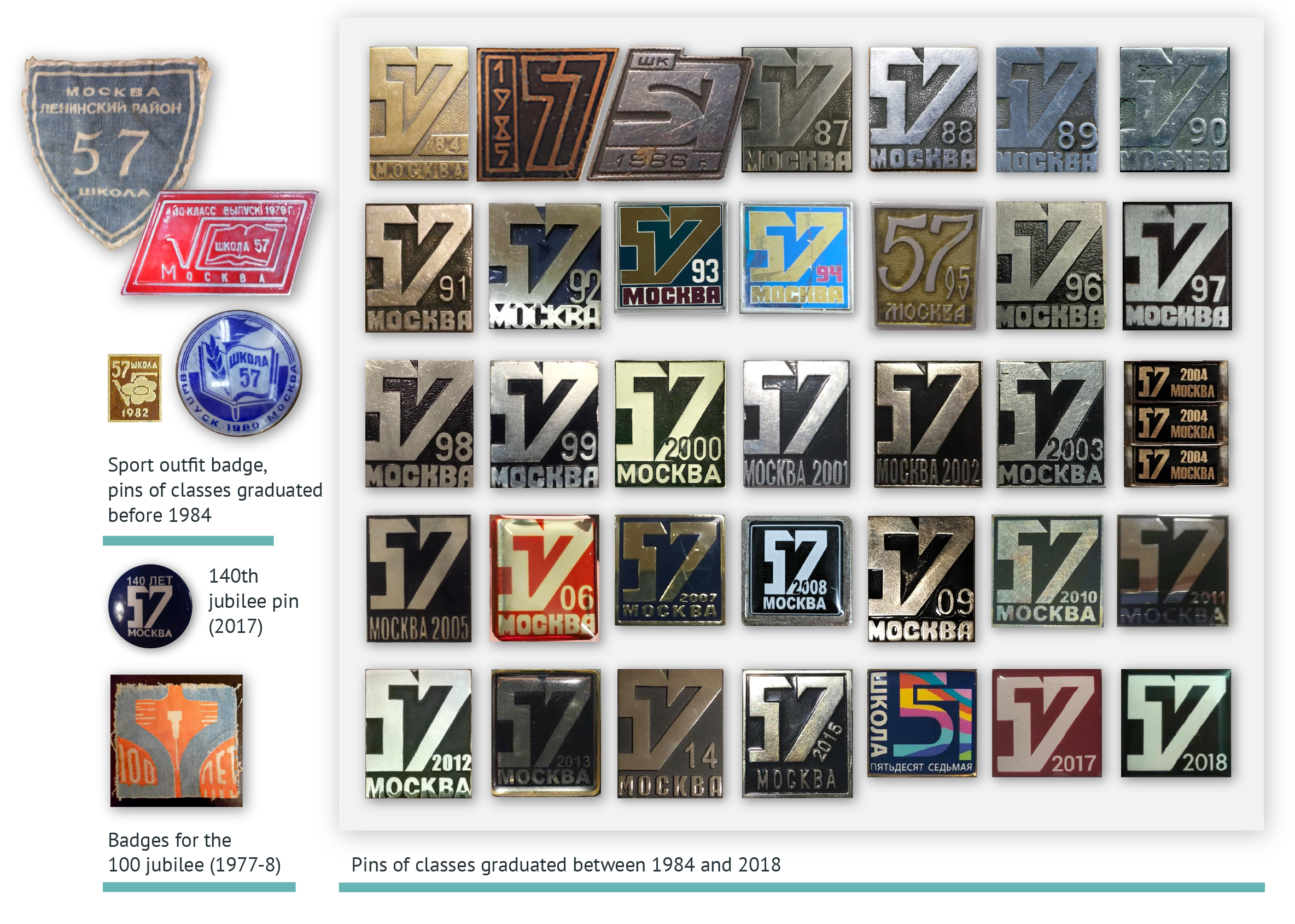 Collection of graduation pins and badges of Moscow School 57 from 1970s to 2018, It was collected mainly by alumni Facebook community in 2016-18.